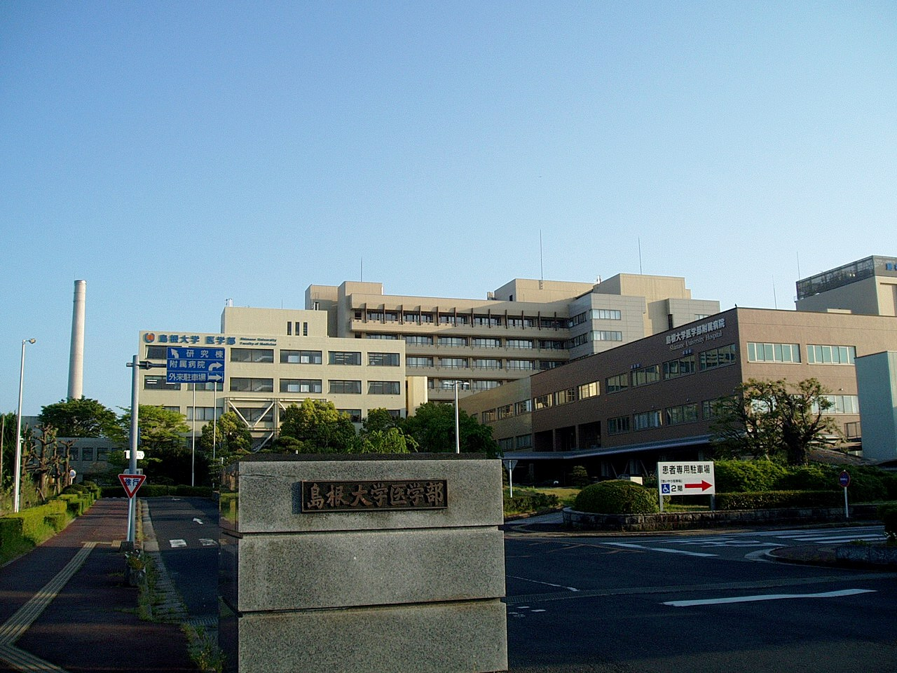 Main entrance to Izumo Campus (Medical School), Shimane University, located in Izumo, Shimane, Japan.